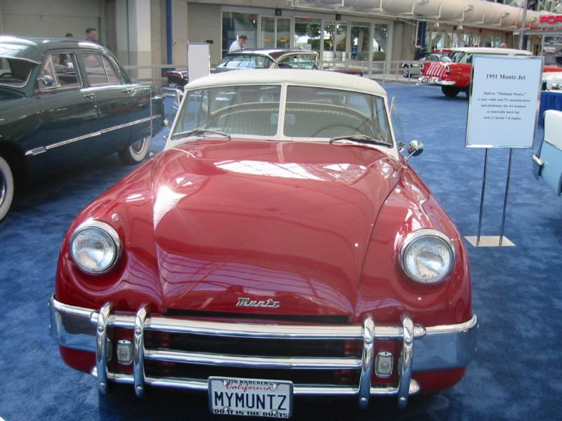 Author: Taken at San Diego Auto Show, 2003